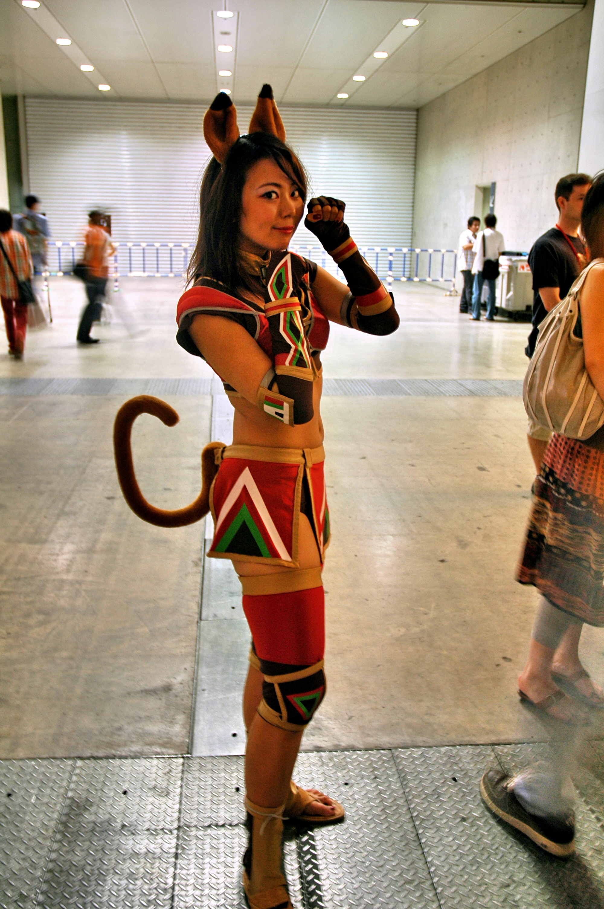 Mithra Cosplay at Square Enix Party, Tokyo